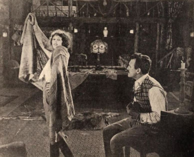 Still from the American mystery film The Invisible Fear (1921) with Anita Stewart and Walter McGrail, on page 40 of the July 30, 1921 Exhibitors Herald.